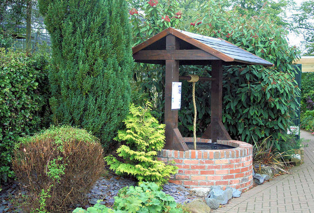 Wishing Well, Calderglen One of the features at Calderglen Visitors Centre East Kilbride.